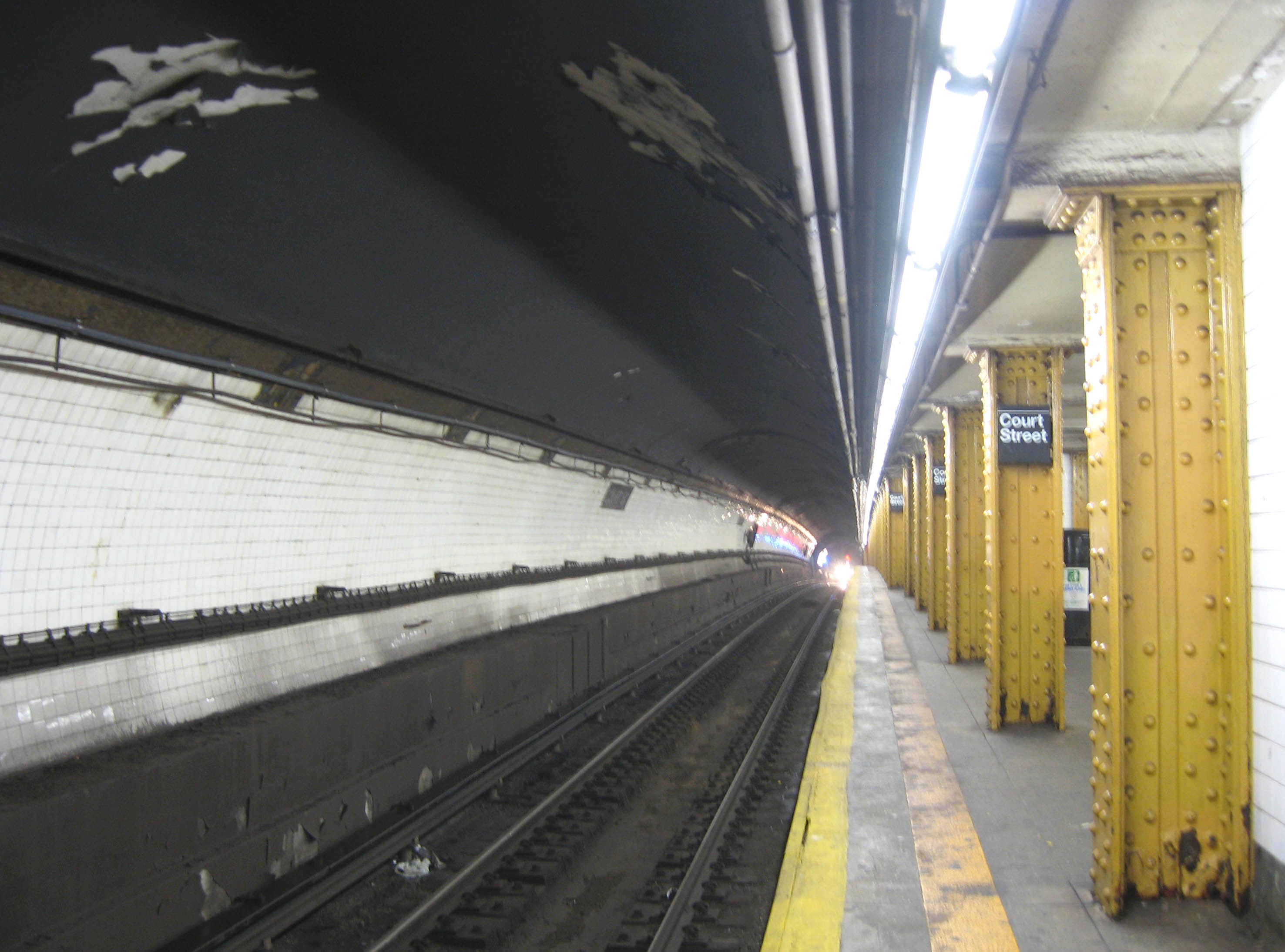 Looking RR North as southbound R train approaches Court Street–Borough Hall (New York City Subway) Station, Brooklyn. See also File:Court St BMT plat jeh.JPG.